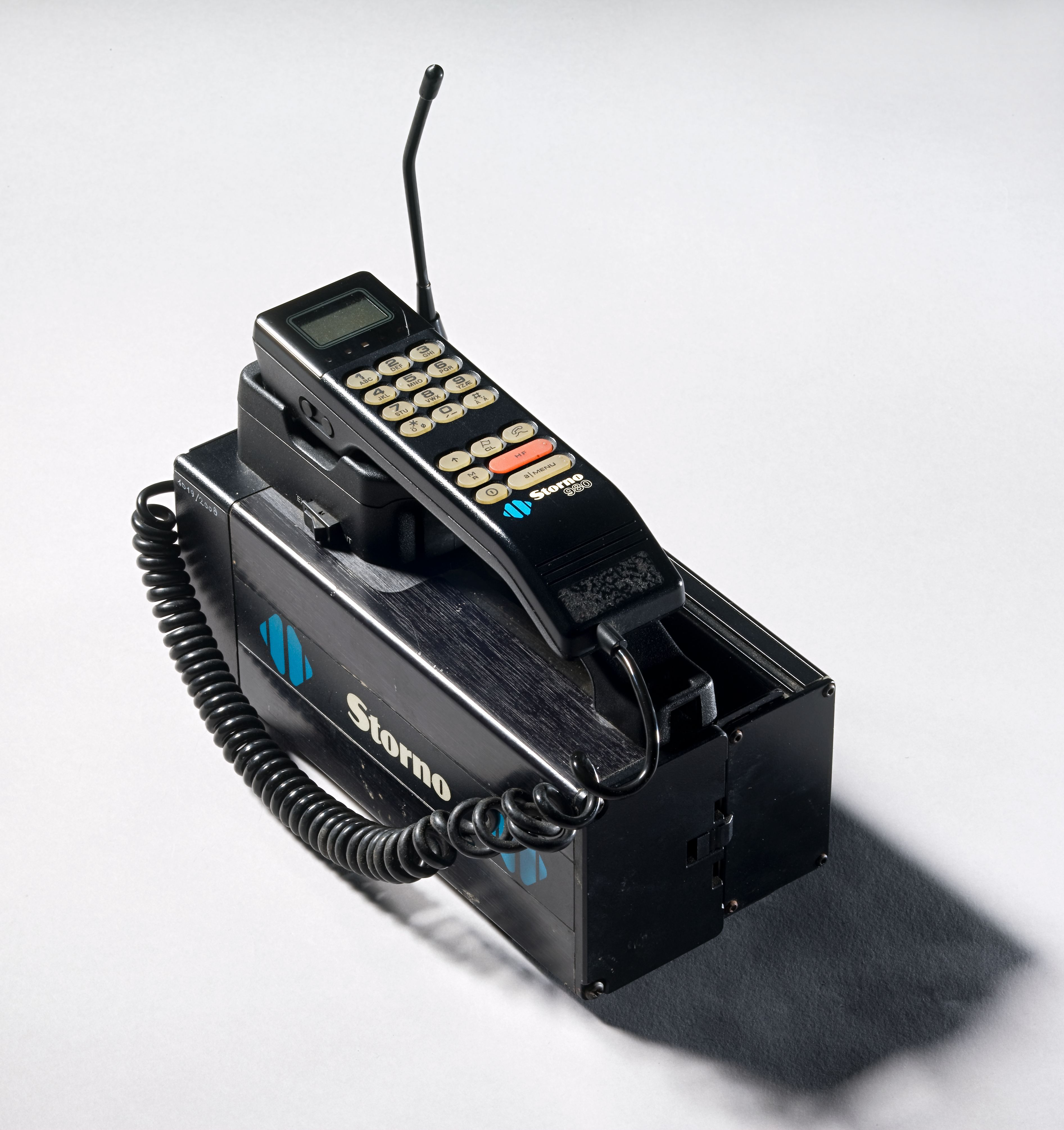 Storno 980 mobile phone, 1988, manufactured by Motorola